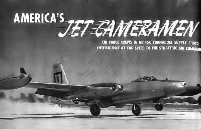 Cover page of a promotional pamphlet of the U.S. Air Force 91st Strategic Reconnaissance Wing, Medium, showing a North American RB-45C Tornado (s/n 48-033), in the early 1950s.